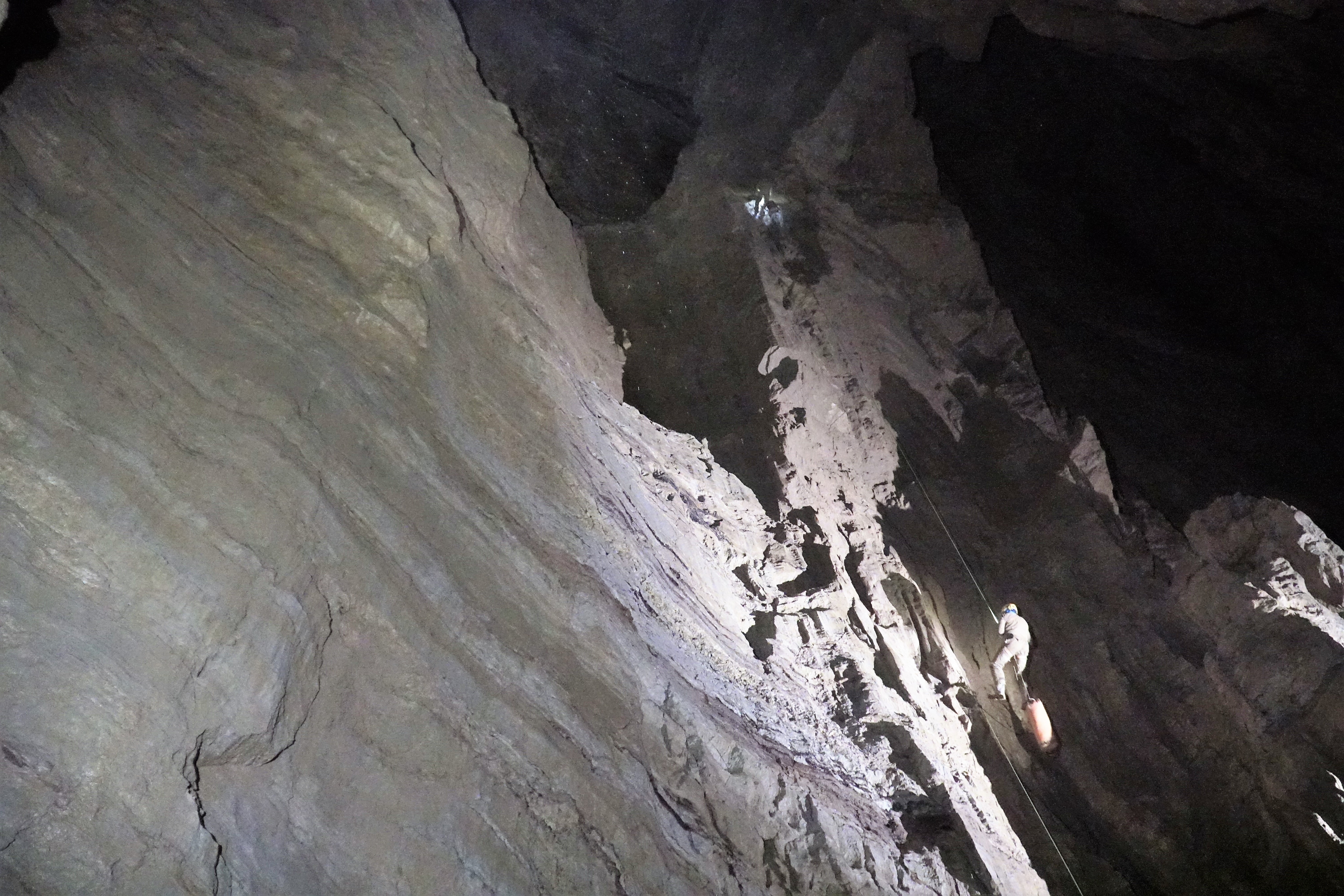 Caver Pavel Demidov of Perovo-speleo (Moscow, Russia) team is going up the Babatunda pit, the biggest (155m) pit of the cave Veryovkina.